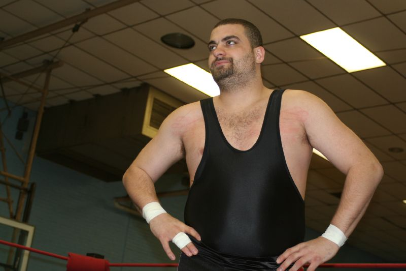 Professional wrestler Eddie Kingston at a PGW show on December 5, 2008.